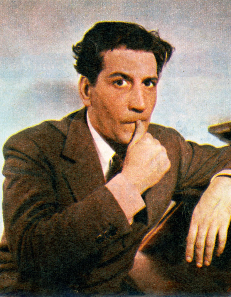 photo from the magazine Radiocorriere (1958)